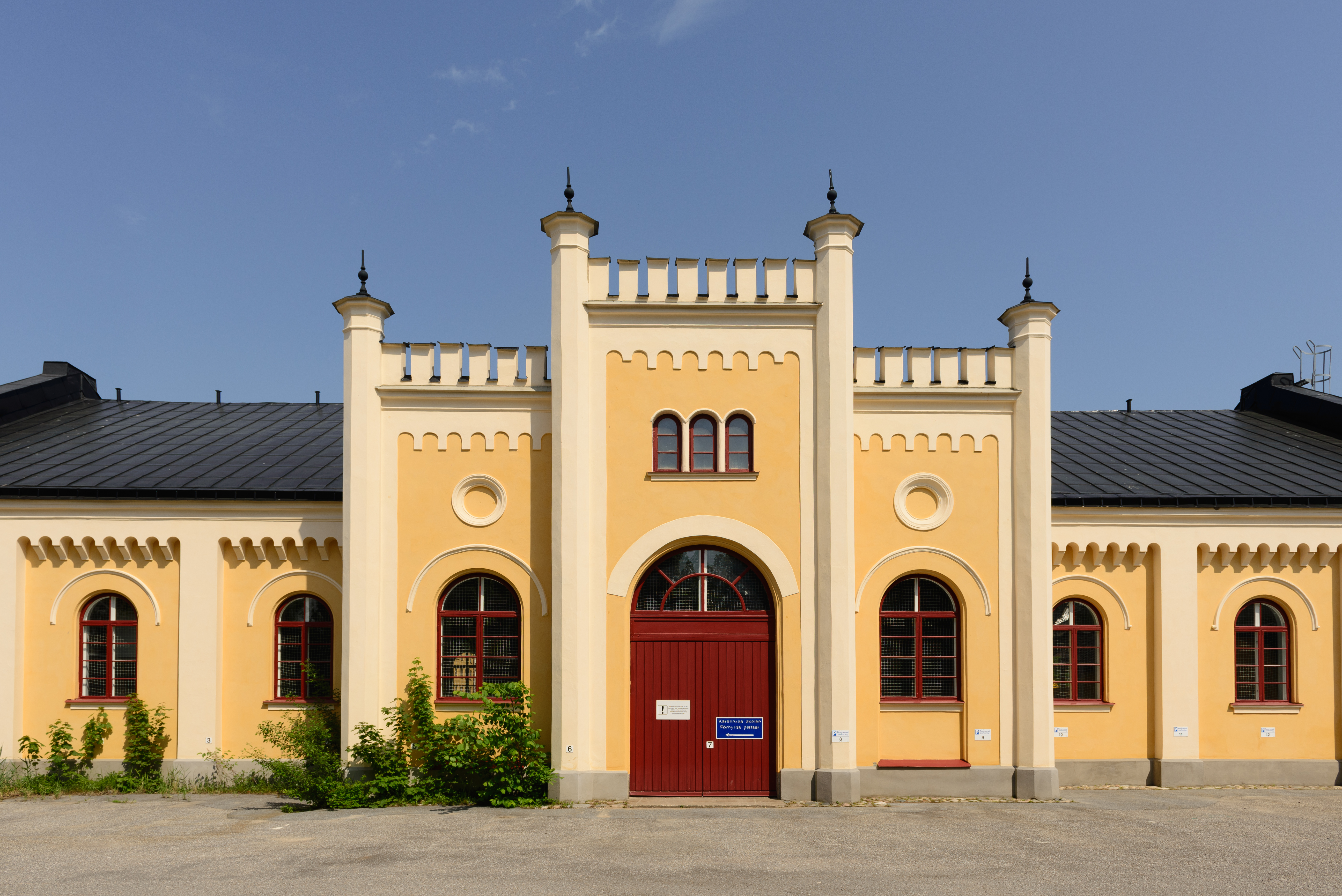 The hussar regiment's former riding school, Örebro, Sweden.